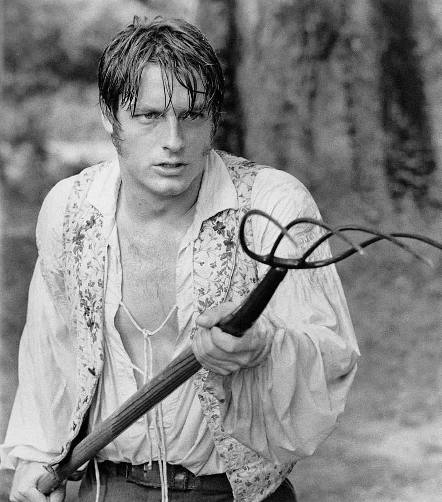 American actor Perry King in the film Mandingo. 1975